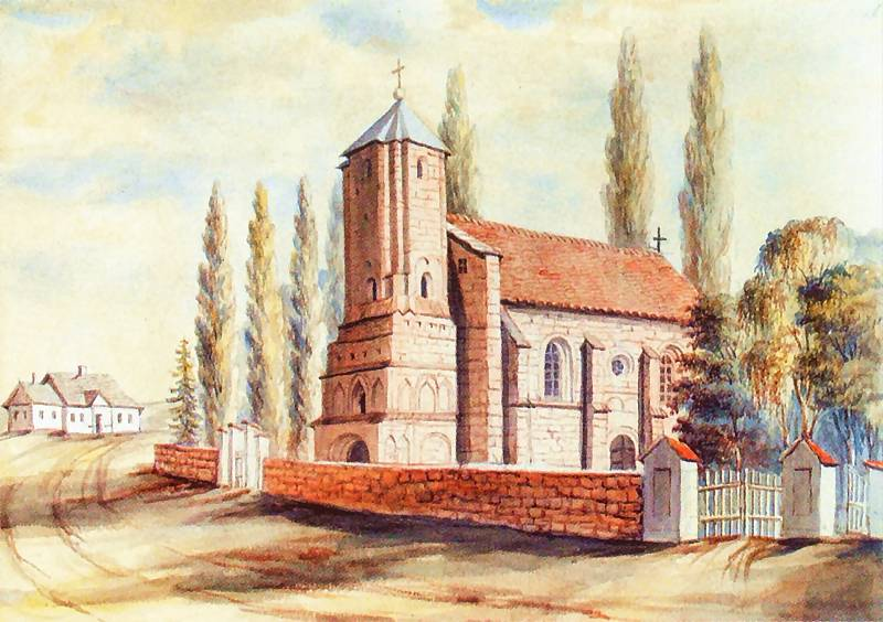 Catholic Church in Hniezna, N. Orda